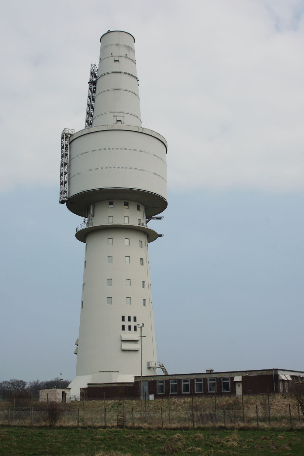 Former signals intelligence tower M of the Federal German Navy. In use from 1964 until 1992.